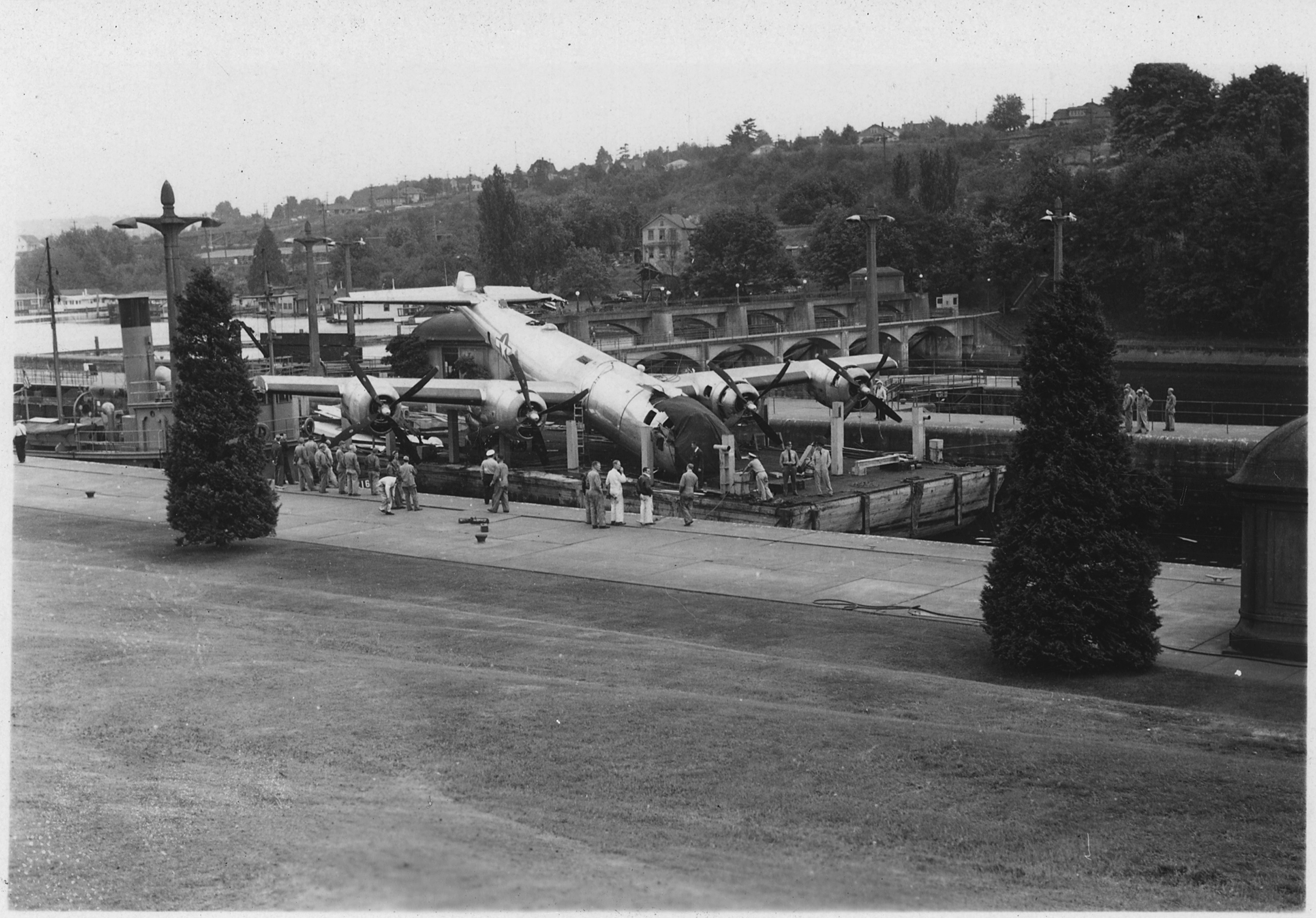 Scope and content: The US Army Corps of Engineers extensively photographed many of the Civil Works project and river and harbor improvement that they were involved with. The Lake Washington Ship Canal and the Hiram Chittenden Locks were built to allow passage between fresh water Lake Union and salt water Puget Sound.